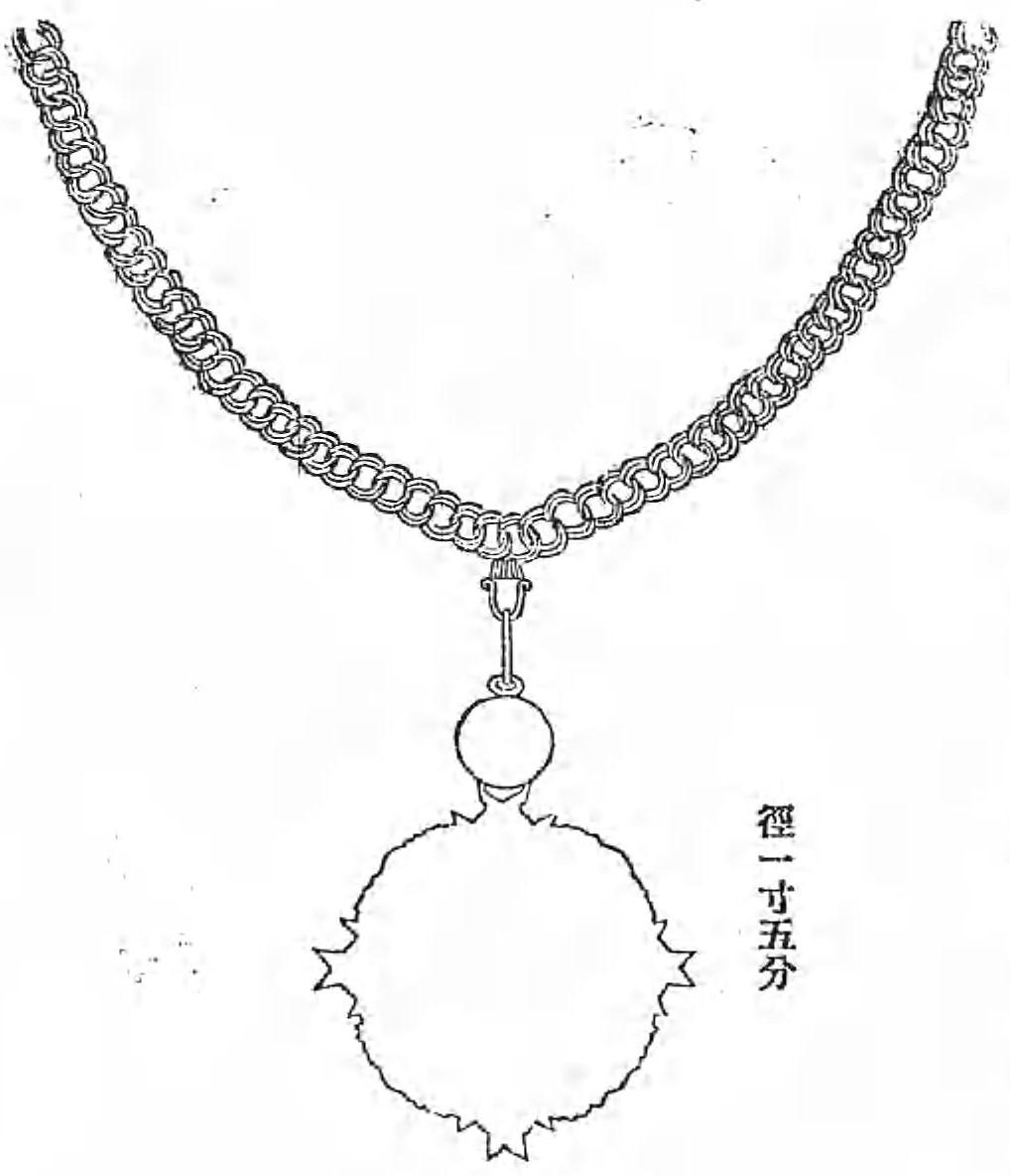 Miniature Collars of the Order of the Chrysanthemum